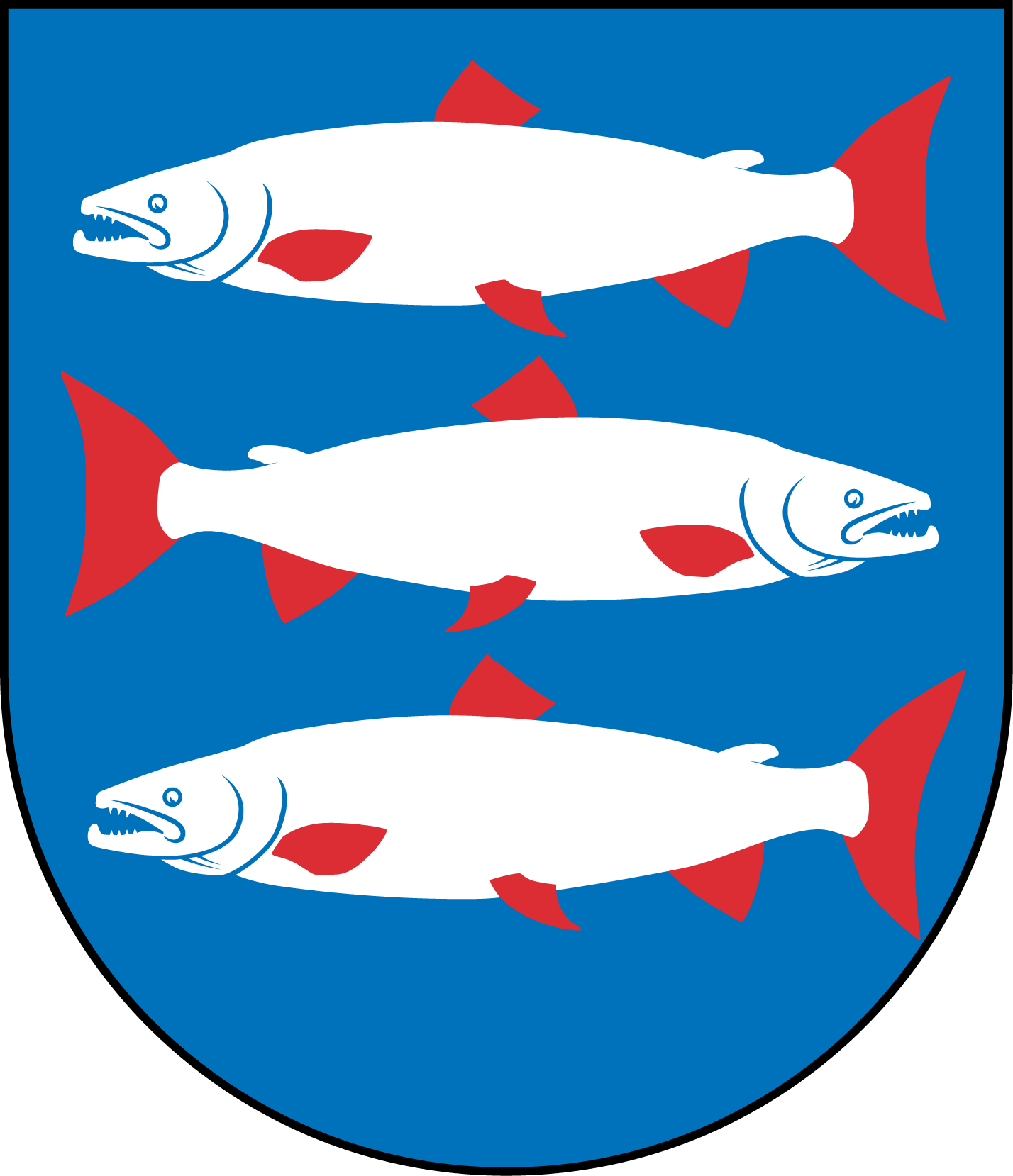 Coat of arms of the province of Ångermanland, Sweden. Painted by Vladimir A. Sagerlund when he was the heraldic artist at the National Archives of Sweden (Riksarkivet). This representation of a coat of arms is potentially different from the one used by the armiger (municipality or organisation) in question. = ⇑“Sable, a lionrampant or” This coat of arms was drawn based on its blazon which – being a written description – is free from copyright. Any illustration conforming with the blazon of the arms is considered to be heraldically correct. Thus several different artistic interpretations of the same coat of arms can exist. The design officially used by the armiger is likely protected by copyright, in which case it cannot be used here.Individual representations of a coat of arms, drawn from a blazon, may have a copyright belonging to the artist, but are not necessarily derivative works. Further information: Commons:Coats of arms and Template:Coa blazon